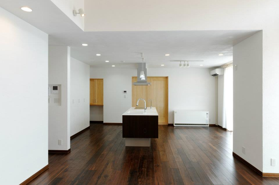 Walnut solid floor (150mm×1820mm) JAPAN